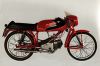 Rumi Junior Motorcycle